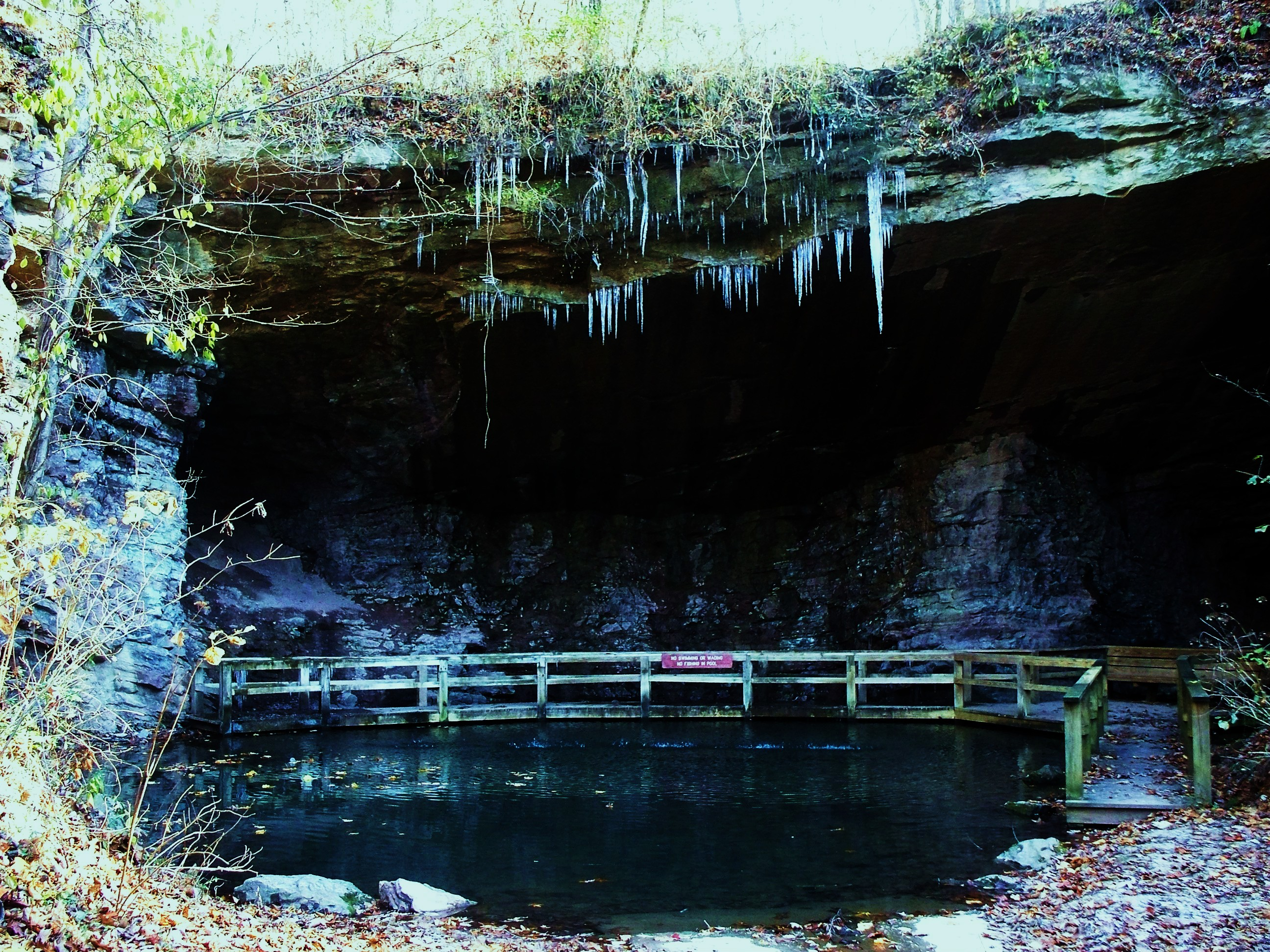 Old Marble Mine Entrance